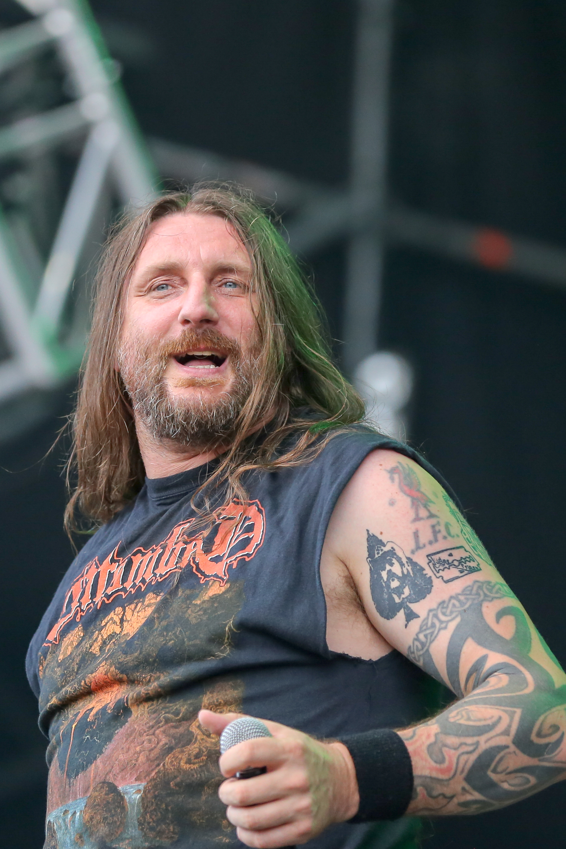 Przystanek Woodstock in 2017.